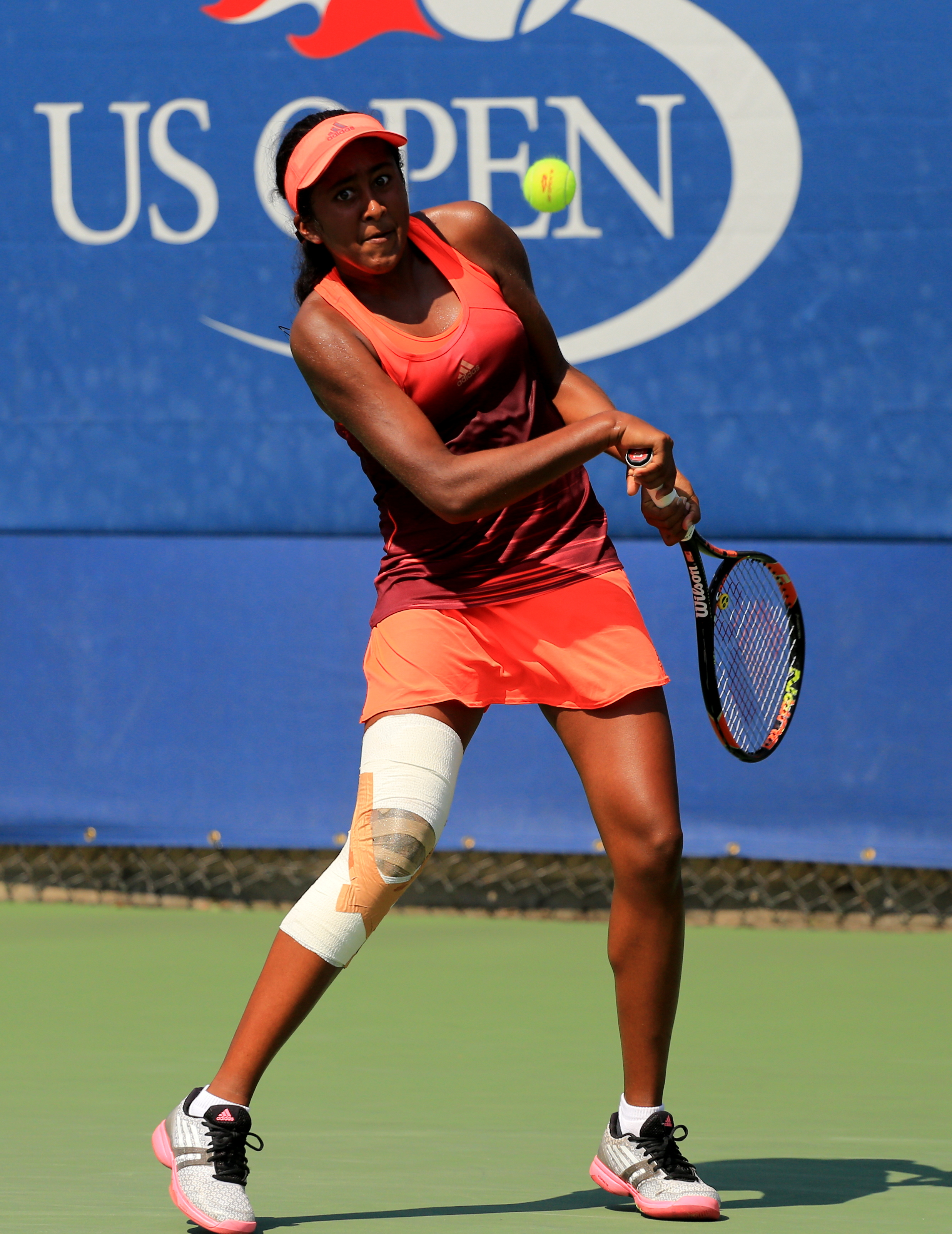 Natasha Subhash at the 2015 US Junior Open